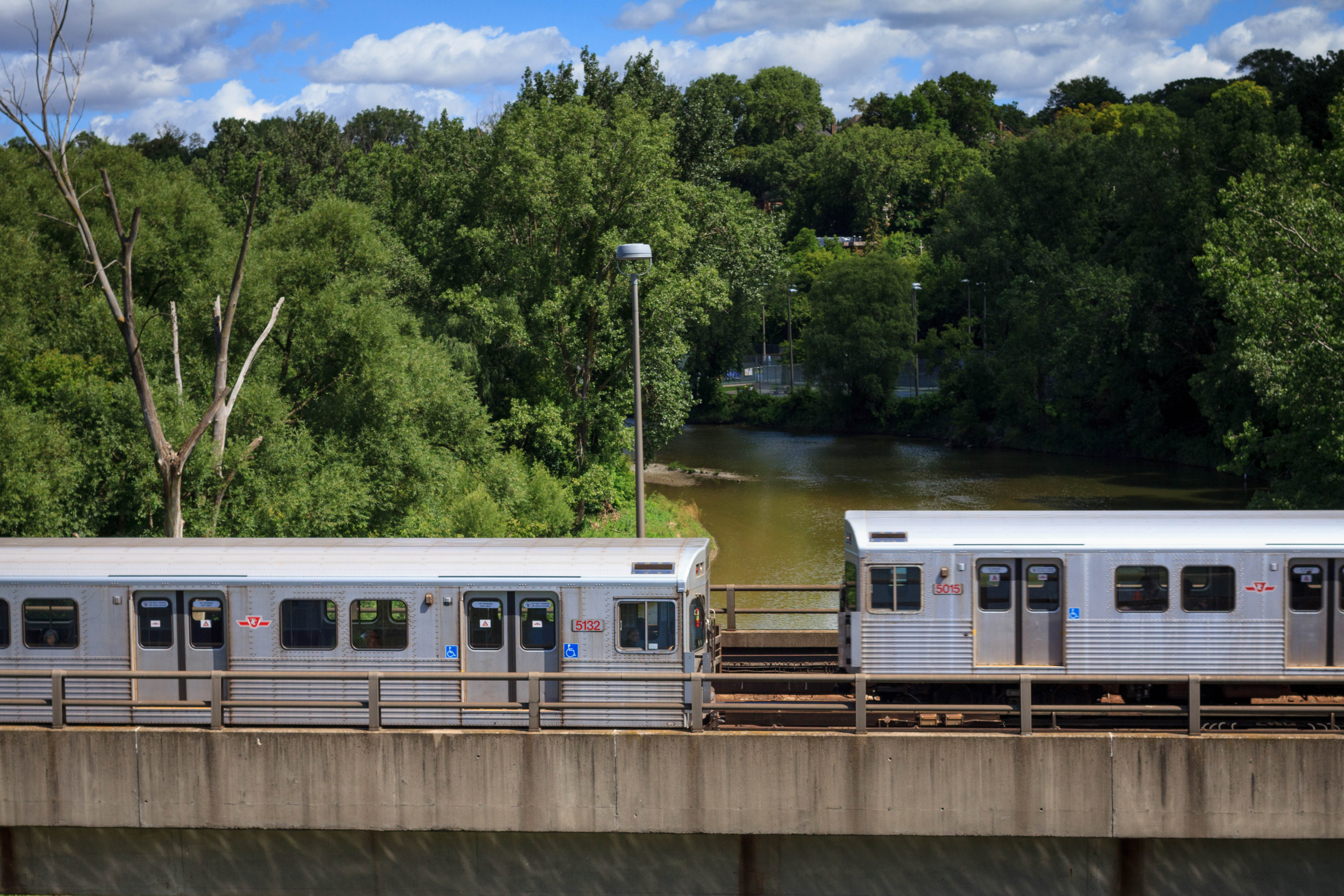 Head To Head near Old Mill subway station in Toronto with the tracks spanning the Humber River